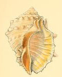 Genus Purpura, Plate I. Purpura echinulata, synonym of Thais echinulata[1]